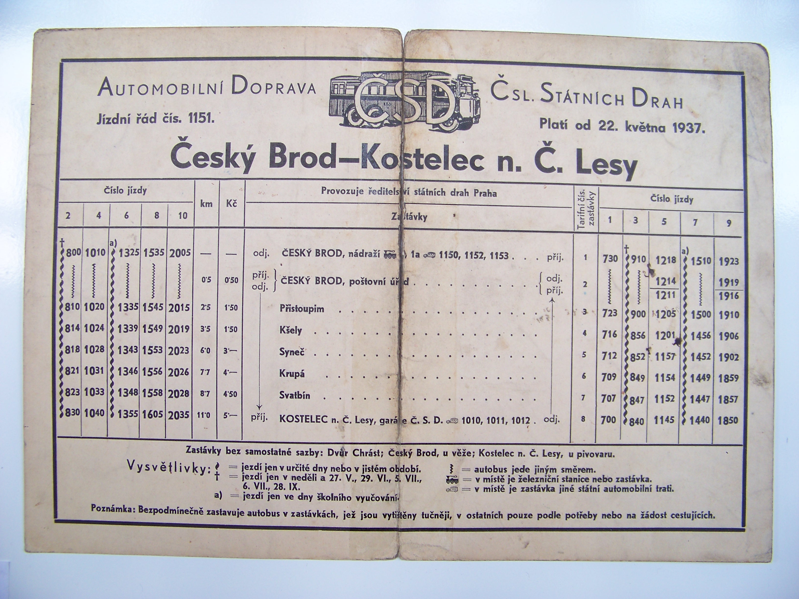 Bus timetable of Czechoslovak State Railways from 1937. Open Doors Day of POLKOST company, Kostelec nad Černými lesy, Prague-East District, Central Bohemian Region, the Czech Republic.